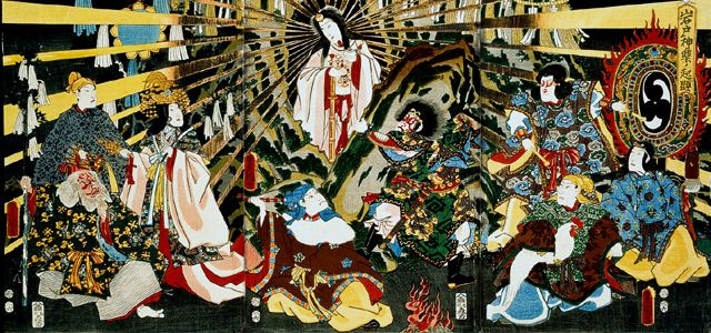 An image of the Japanese Sun goddess Amaterasu emerging from a cave. Moved from .